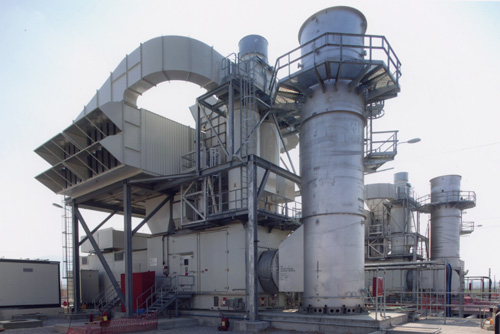 Heron I